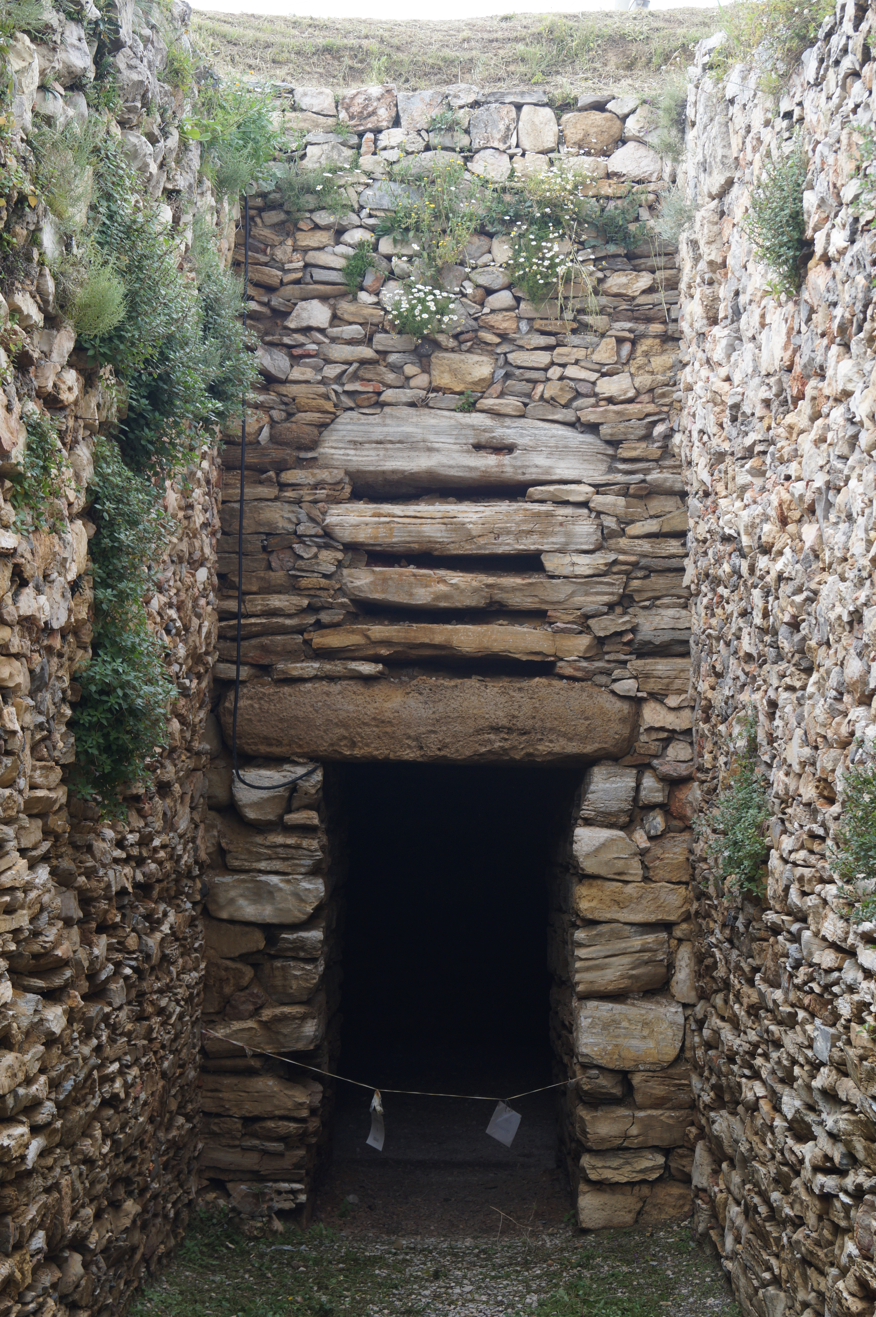 Acharnes, Lycotrypa. Entrance of the tholos tomb of Menidi.